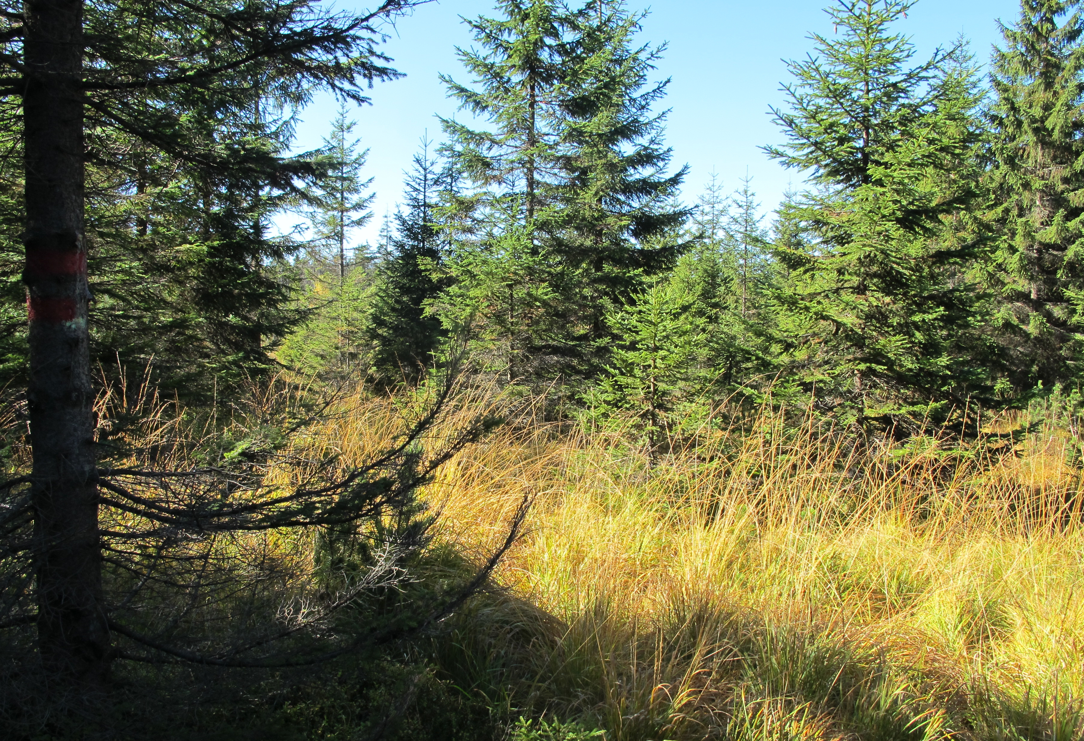 Nature reserve Klikvová louka near Bedřichov in Jizera Mountains, Jablonec nad Nisou District in Czech Republic